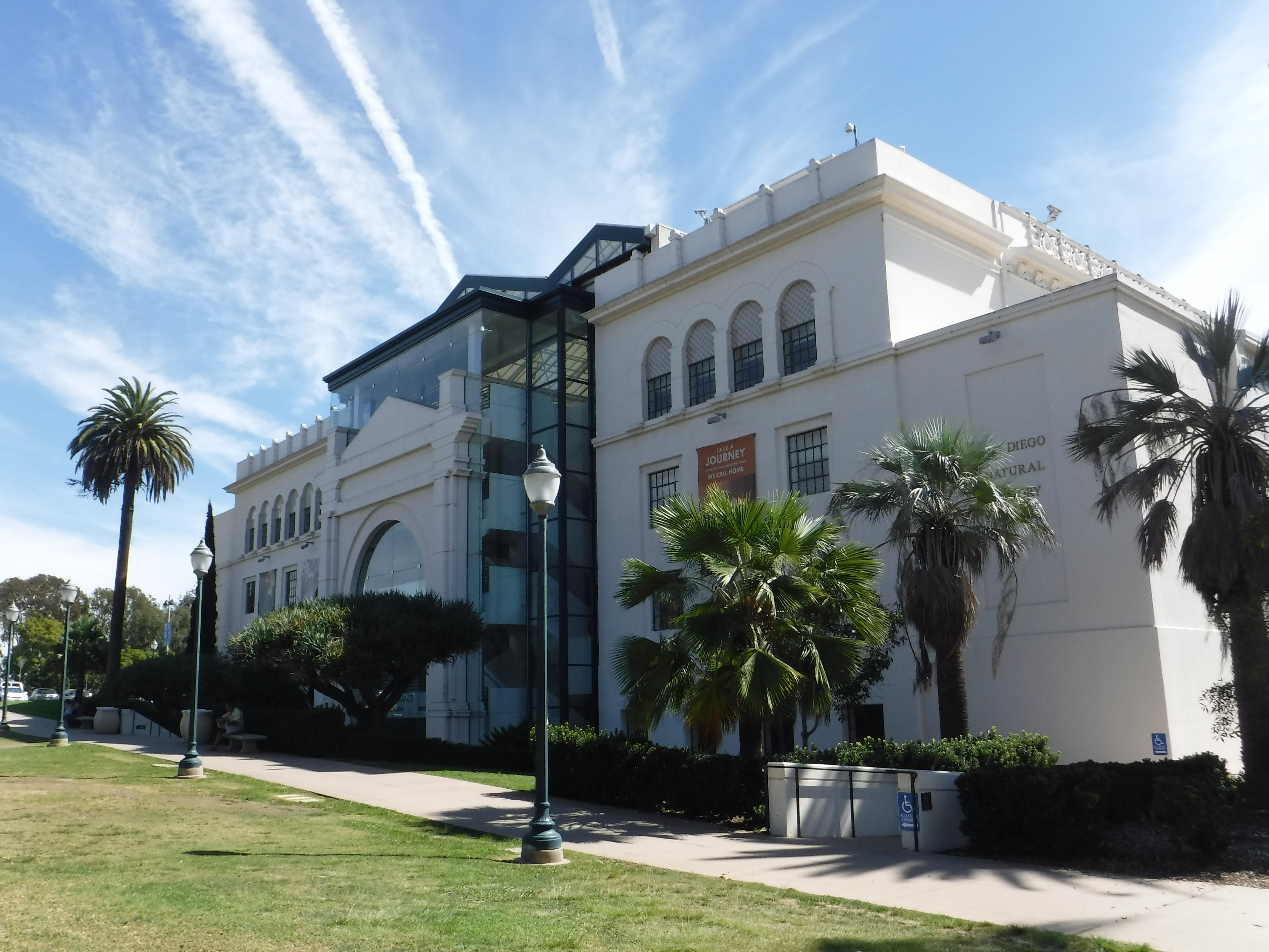 The main entrance of the San Diego Natural History Museum faces into the pedestrian area of Balboa Park, El Prado. This is effectively a rear entrance, facing towards Park Blvd.